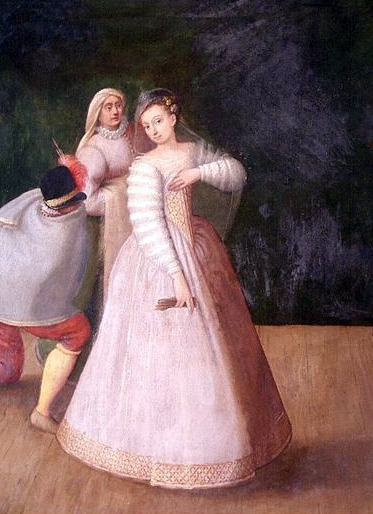 Isabella Andreini (1562-1604), Italian actress and writer